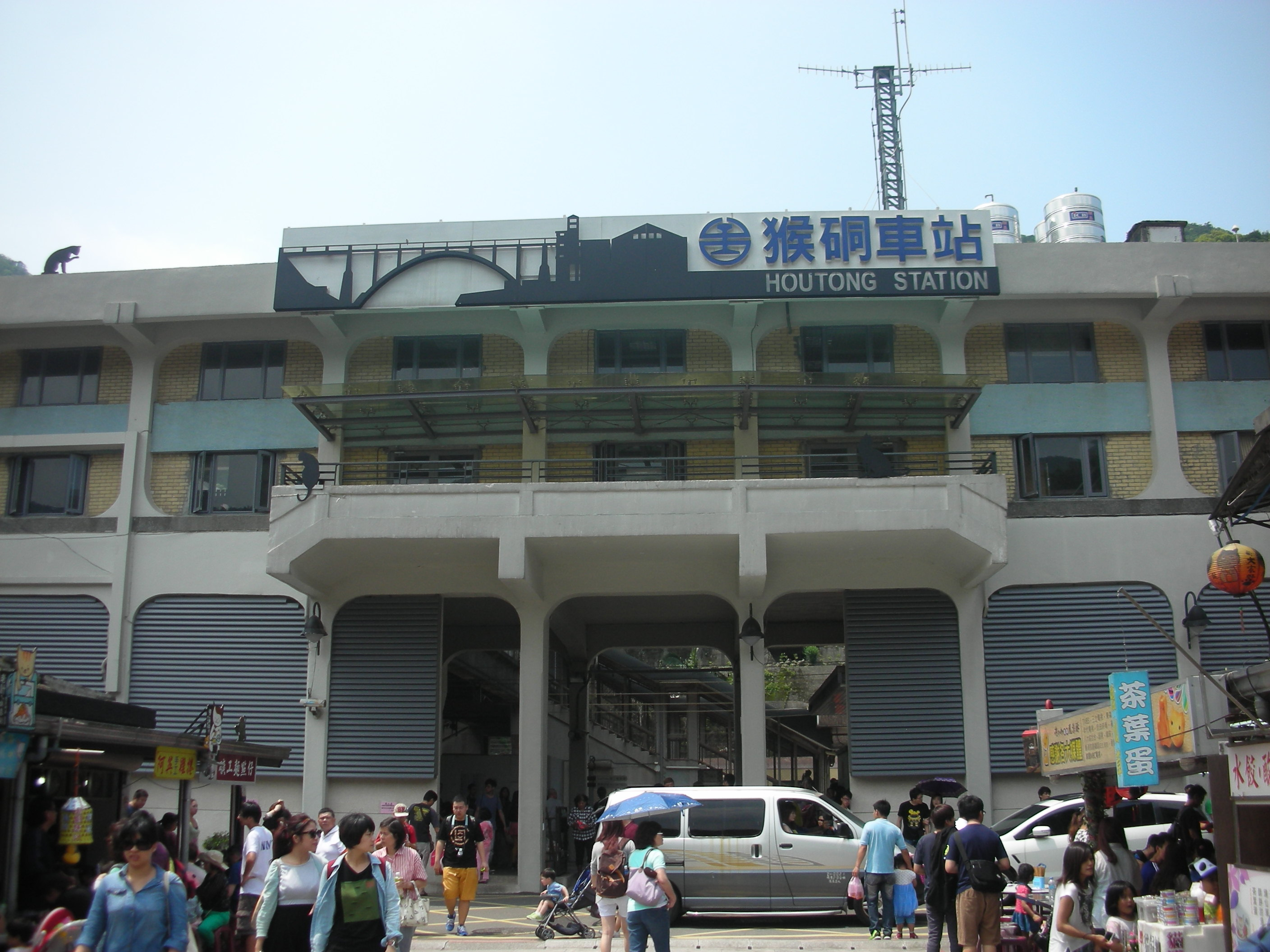 猴硐車站 Houtong Station